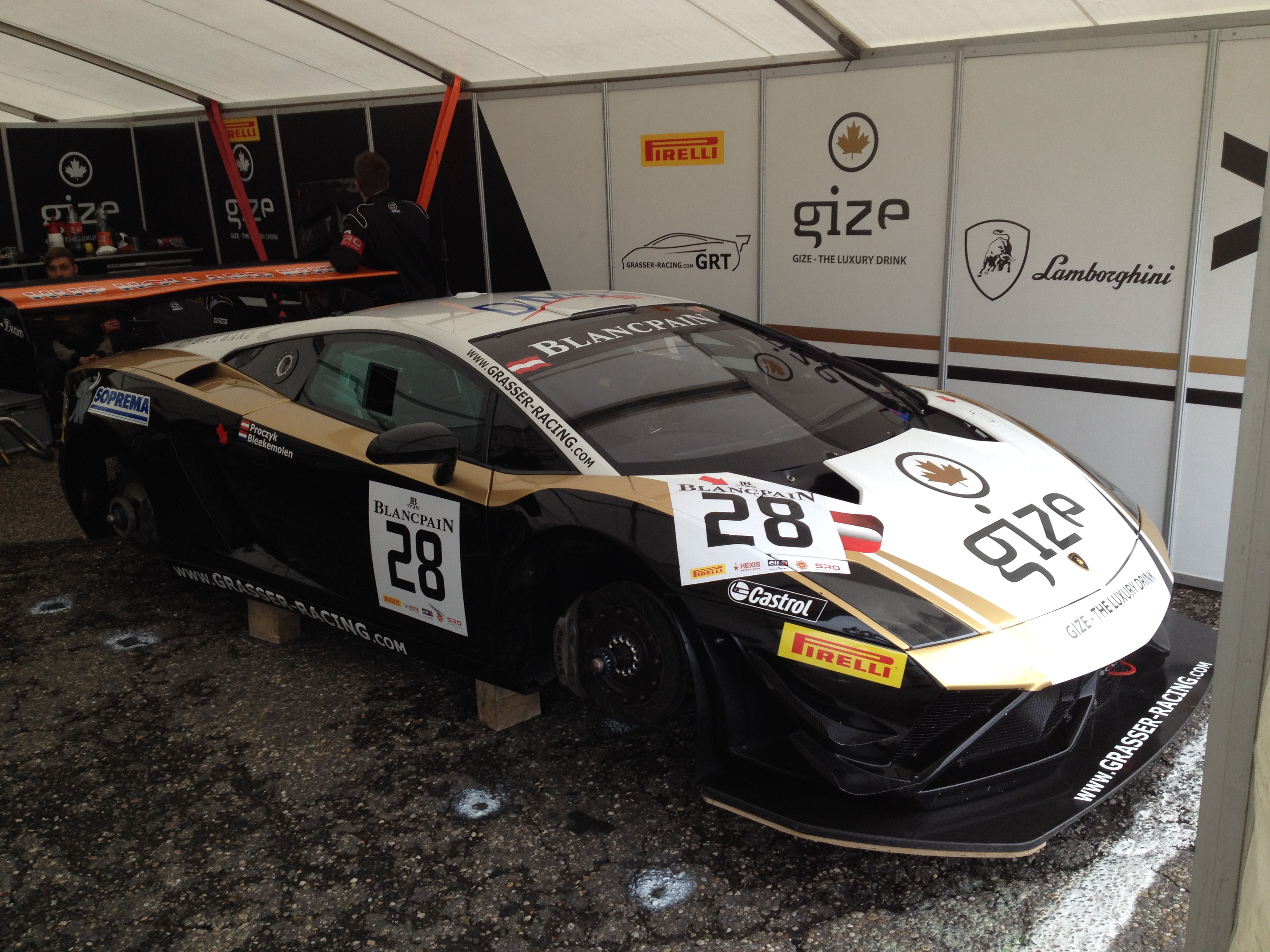 The Lamborghini Gallardo GT3 FLII entered by Grasser Racing for Jeroen Bleekemolen and Hari Proczyk photographed during the Zandvoort Masters 2014.